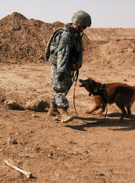 A U.S. contractor and her dog search for Specialist Alex Ramon Jimenez, Private First Class Joseph J. Anzack, Private Byron Wayne and Sergeant Anthony J. Schober after their abduction.(Photo by Luke Thornberry)